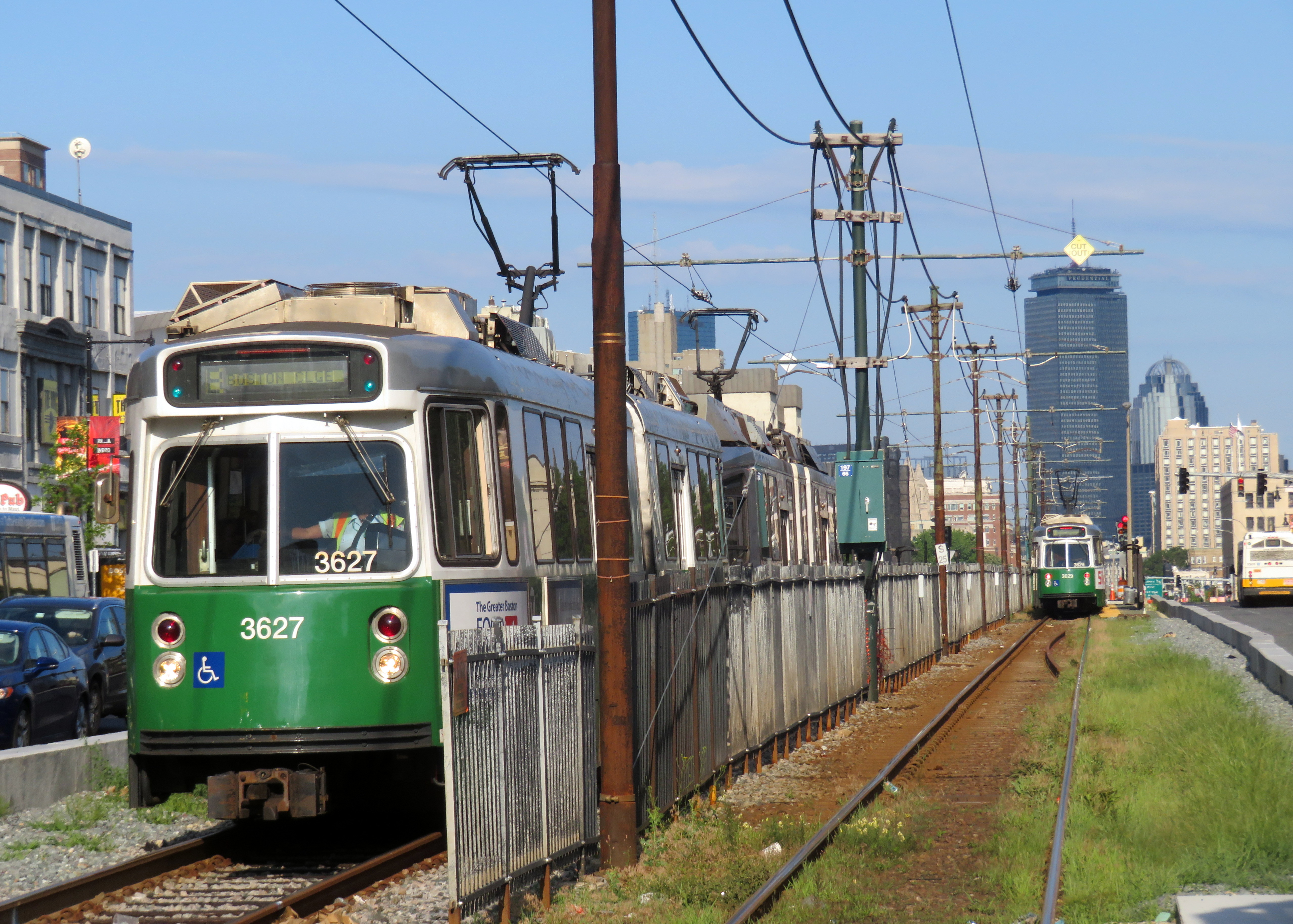 An outbound train approaching Babcock Street station in July 2019